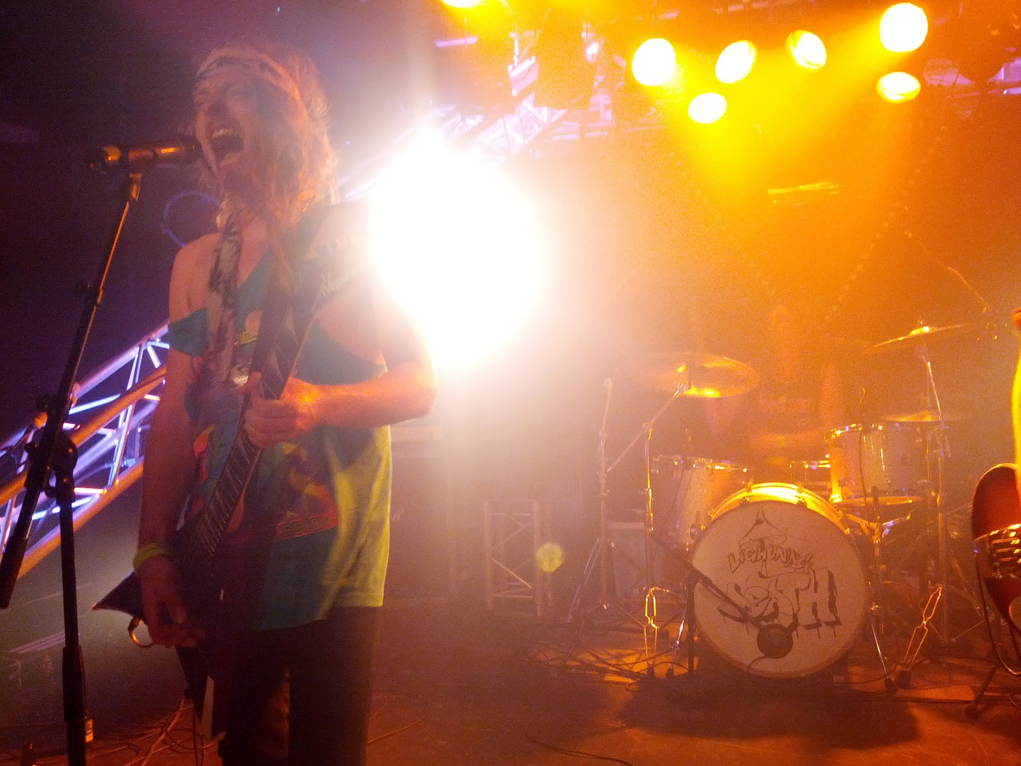 Gerilja performing live at NISS in Oslo.